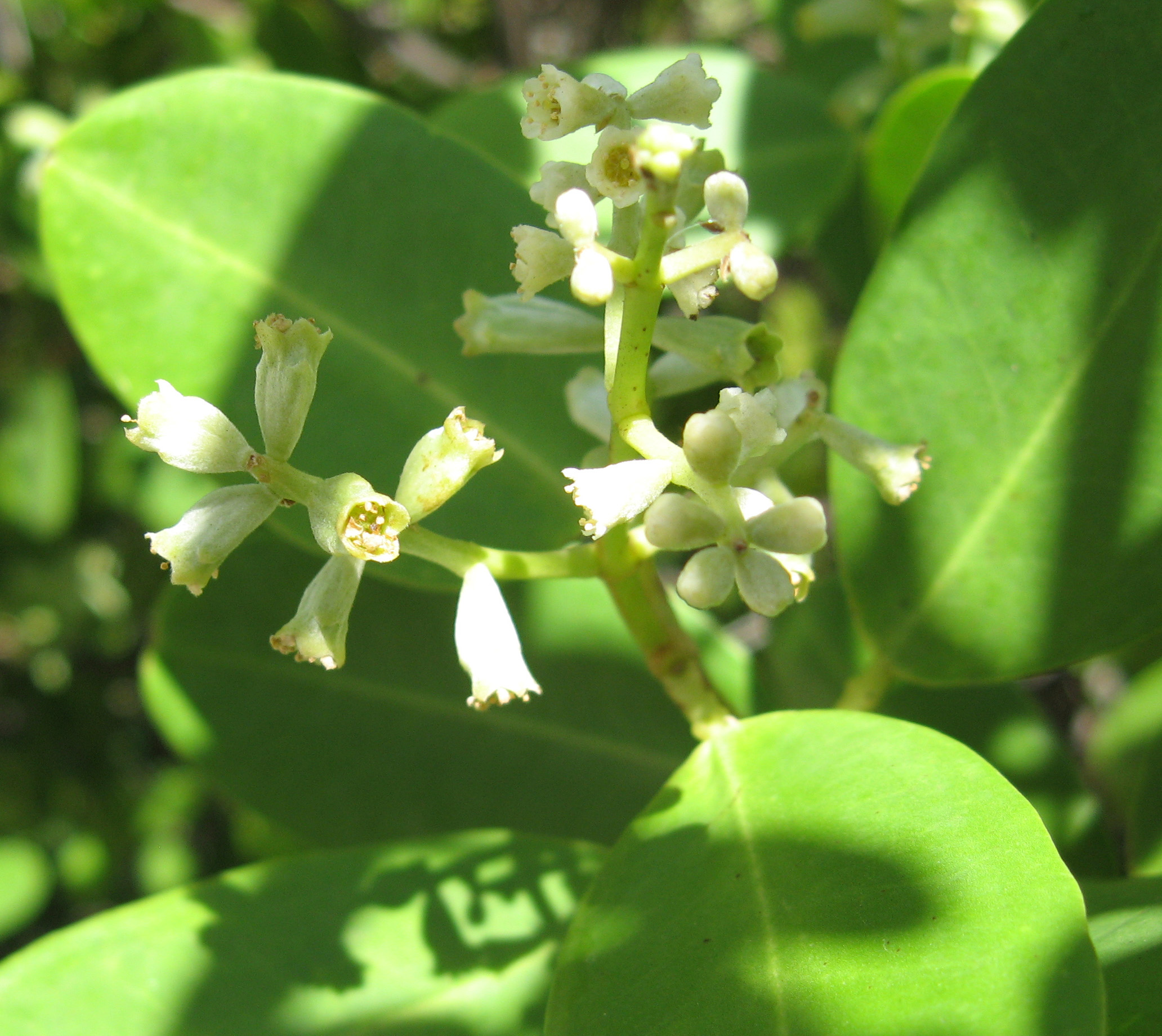 Laguncularia racemosa, Upper Matecumbe Key, Monroe County, Florida.